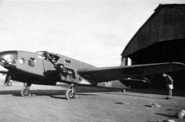 An Italian Caproni Ca.309 Ghibli reconnaissance plane, captured by No. 3 Squadron RAAF, at Idku, Egypt, in 1943.